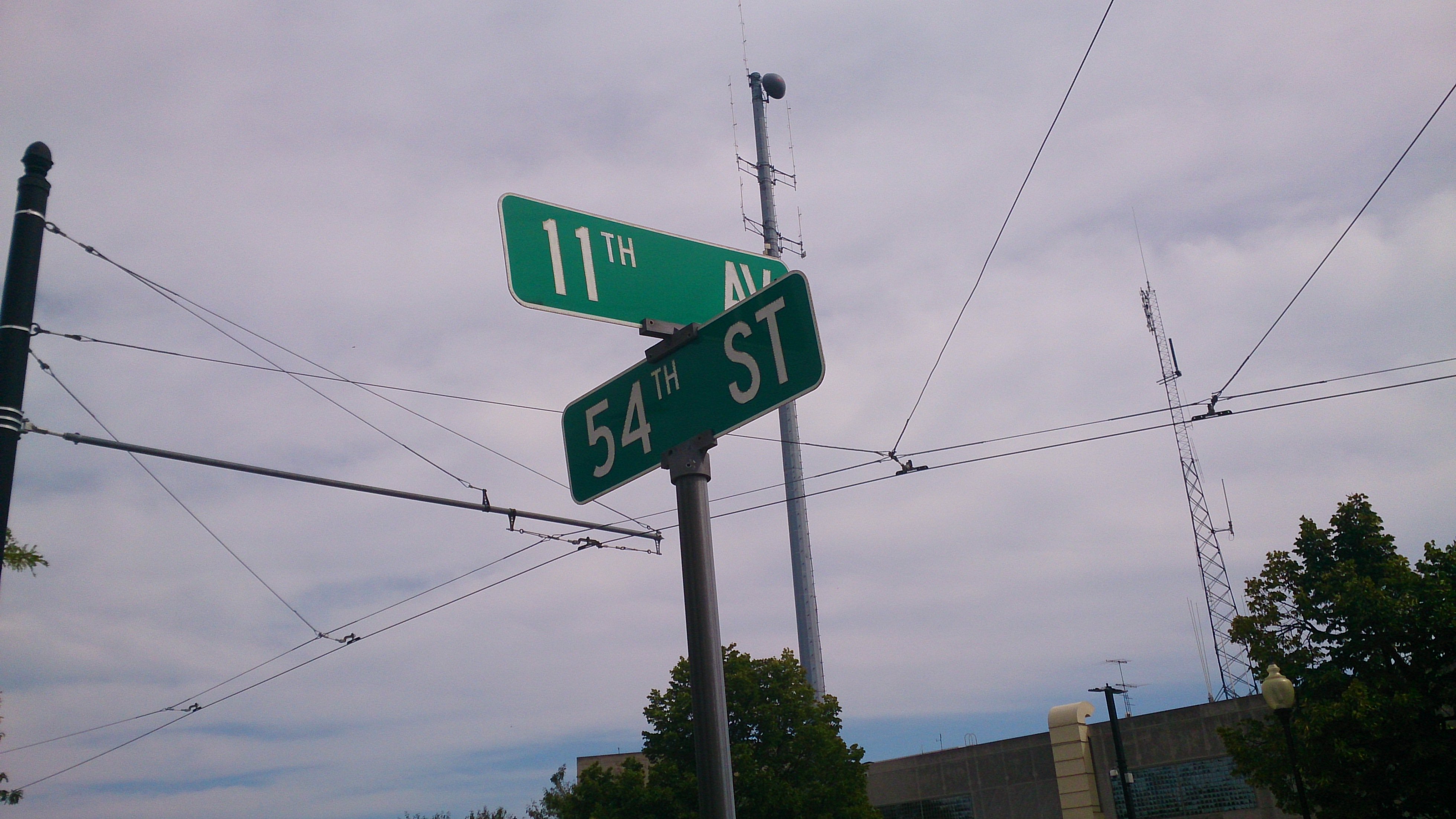 Intersection street sign in Kenosha, Wisconsin